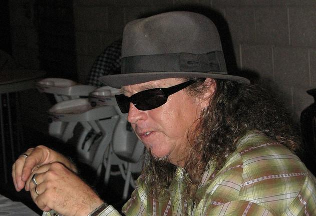 Terry Scott Taylor at Lost Dogs concert in 2007.